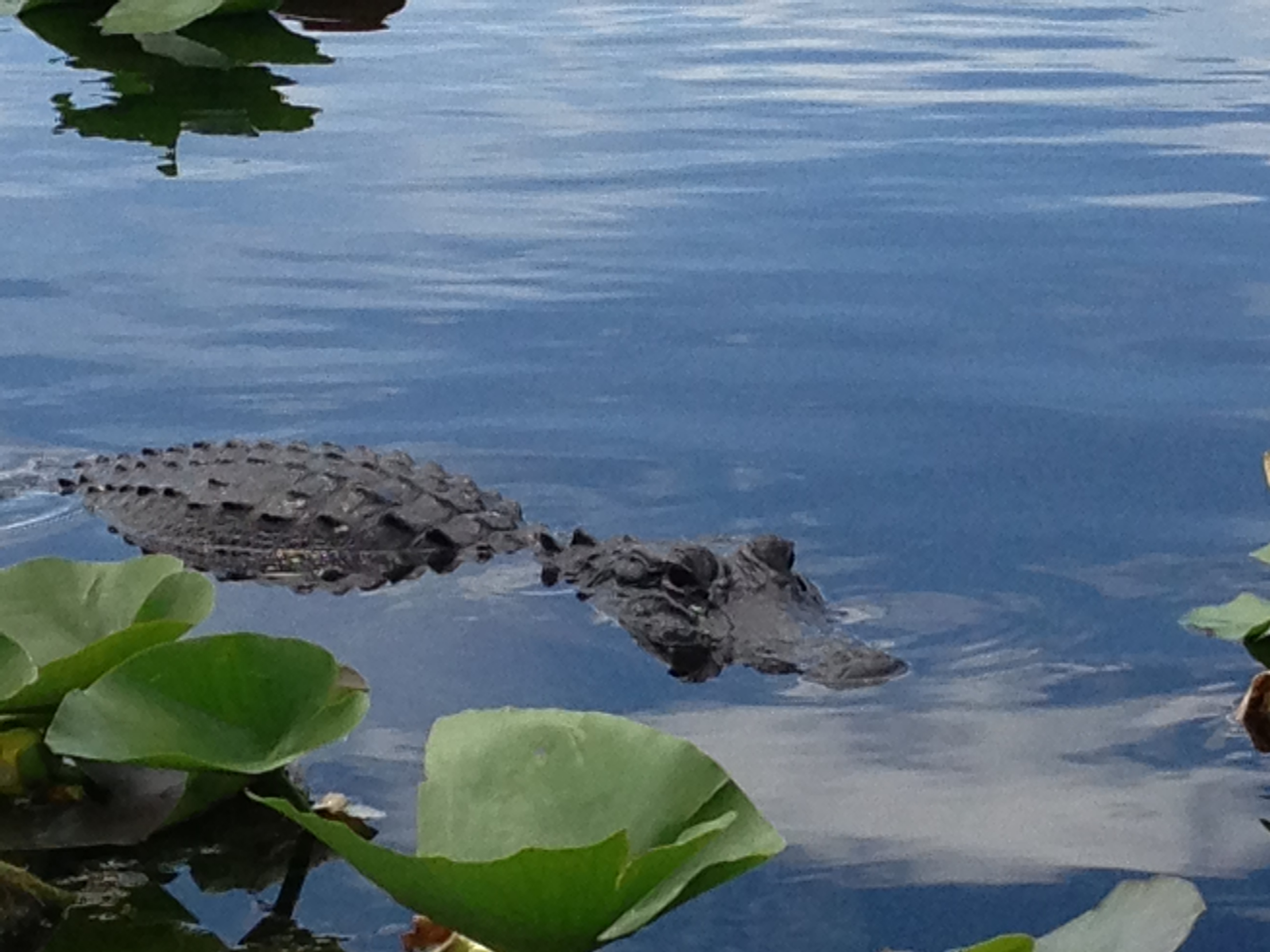 An American alligator (Alligator mississippiensis), Everglades National Park, Florida, USA.